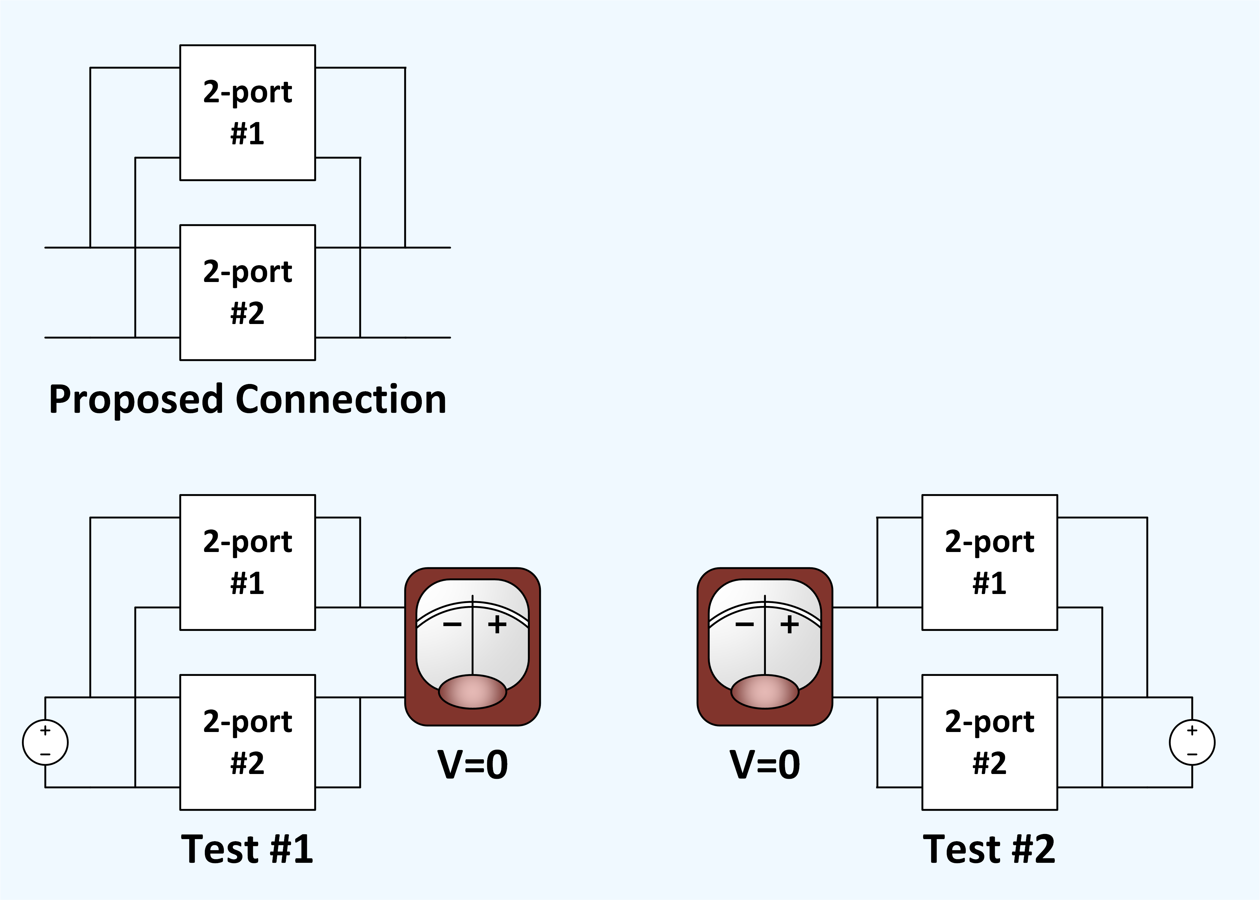 Brune Test for connecting two-port networks with ports paralleled.